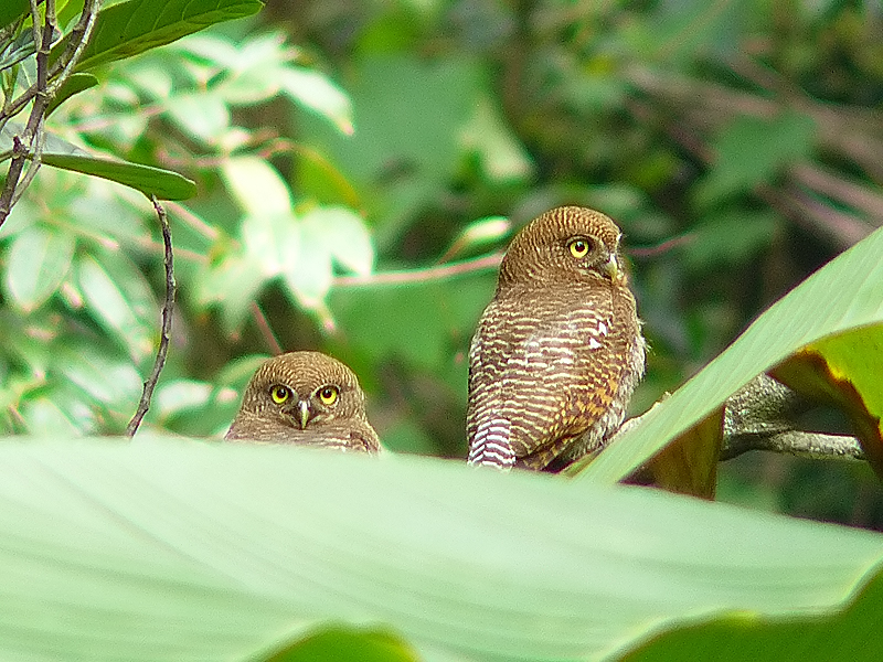 The Owlet couple were perched on a jackfruit tree. The leaf of the banana did come in the way but I feel that it somehow enhances this particular photo. I did try to change the angle to get a better shot, but they resented my attentions and flew off.